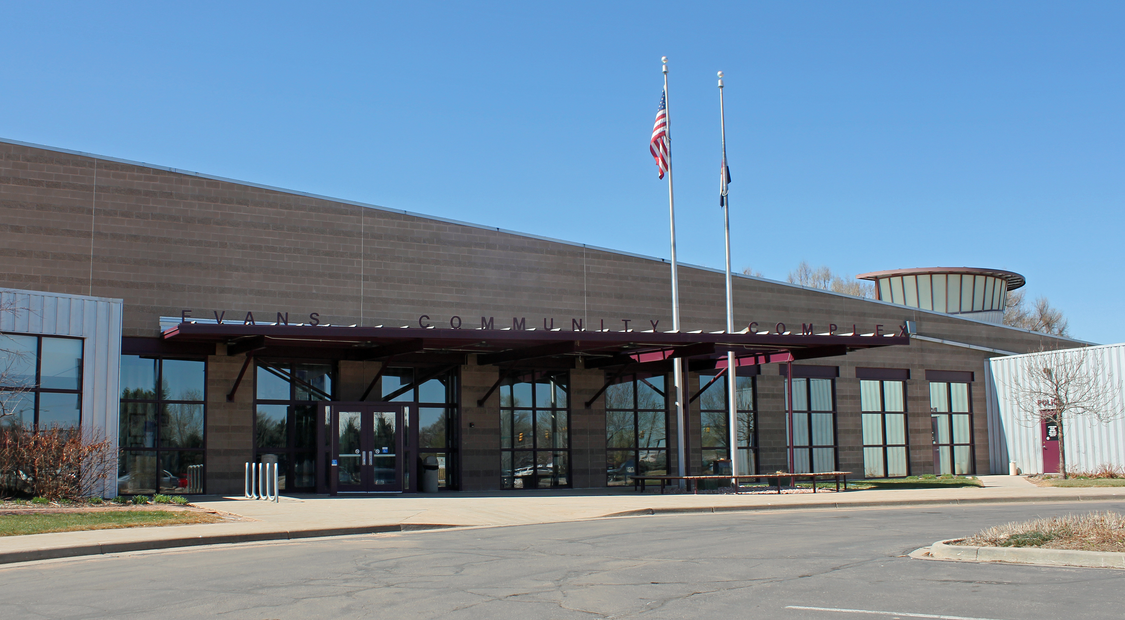 The Evans Community Complex (city hall), located at 1100 37th Street in Evans, Colorado.